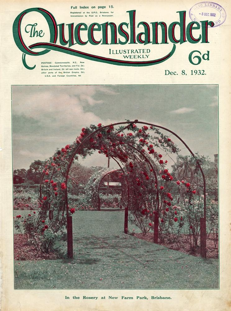 Creator: Unidentified Location: Brisbane, Queensland Description: Caption: In the Rosery at New Farm Park, Brisbane. View this image at the State Library of Queensland: Information about State Library of Queensland’s collection